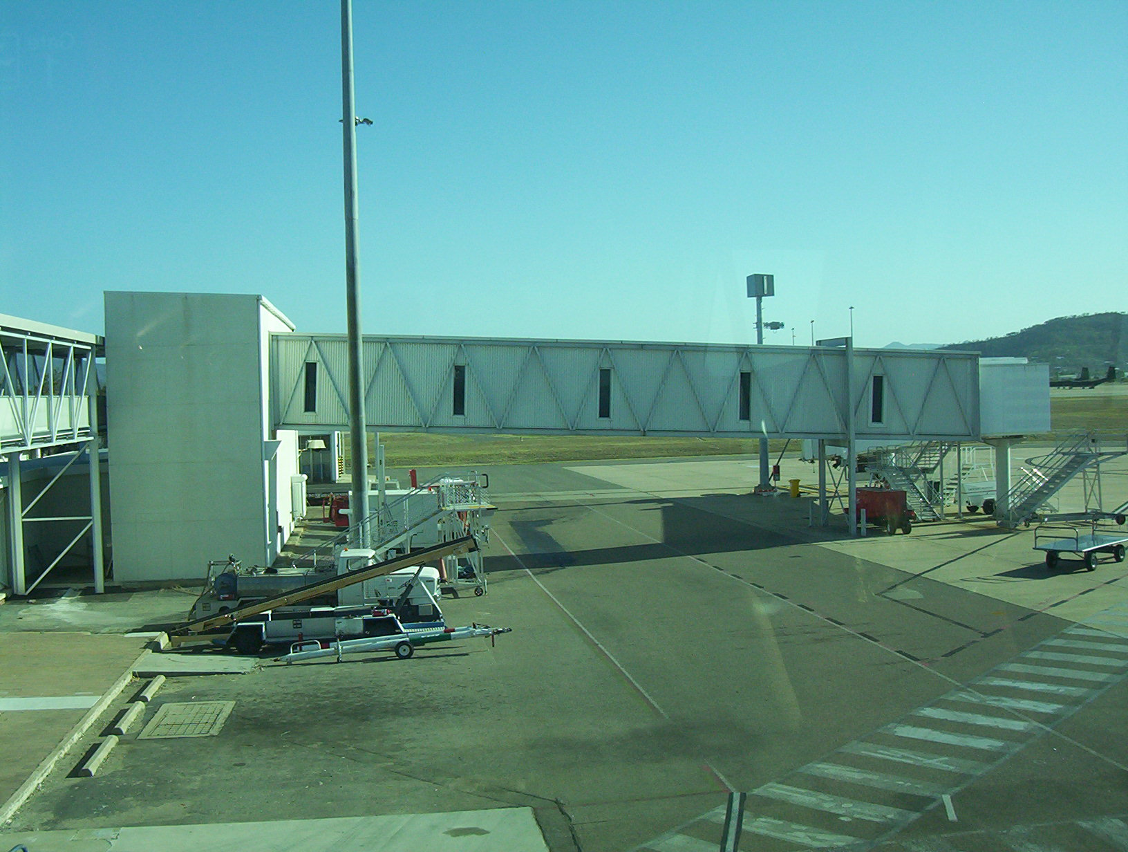 Townsville International Airport's International Aerobridge as seen from Gate 2 (Virgin Blue Gate) at Townsville. It has hardly been used since 1995. The last movement the International Aerobridge had, was a Qantas Boeing 747-400 used for an NRL Grand Final Charter between Townsville and Sydney on 2nd of October, photo was taken a day before the 2nd of October, I was hoping to get the 747 in the shot but wasn't there. Gertzy